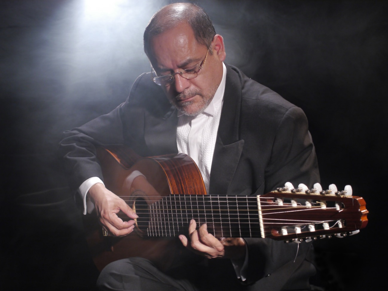 Alejandro Arroyo Ríos playing Ülkantum Mapuchinas